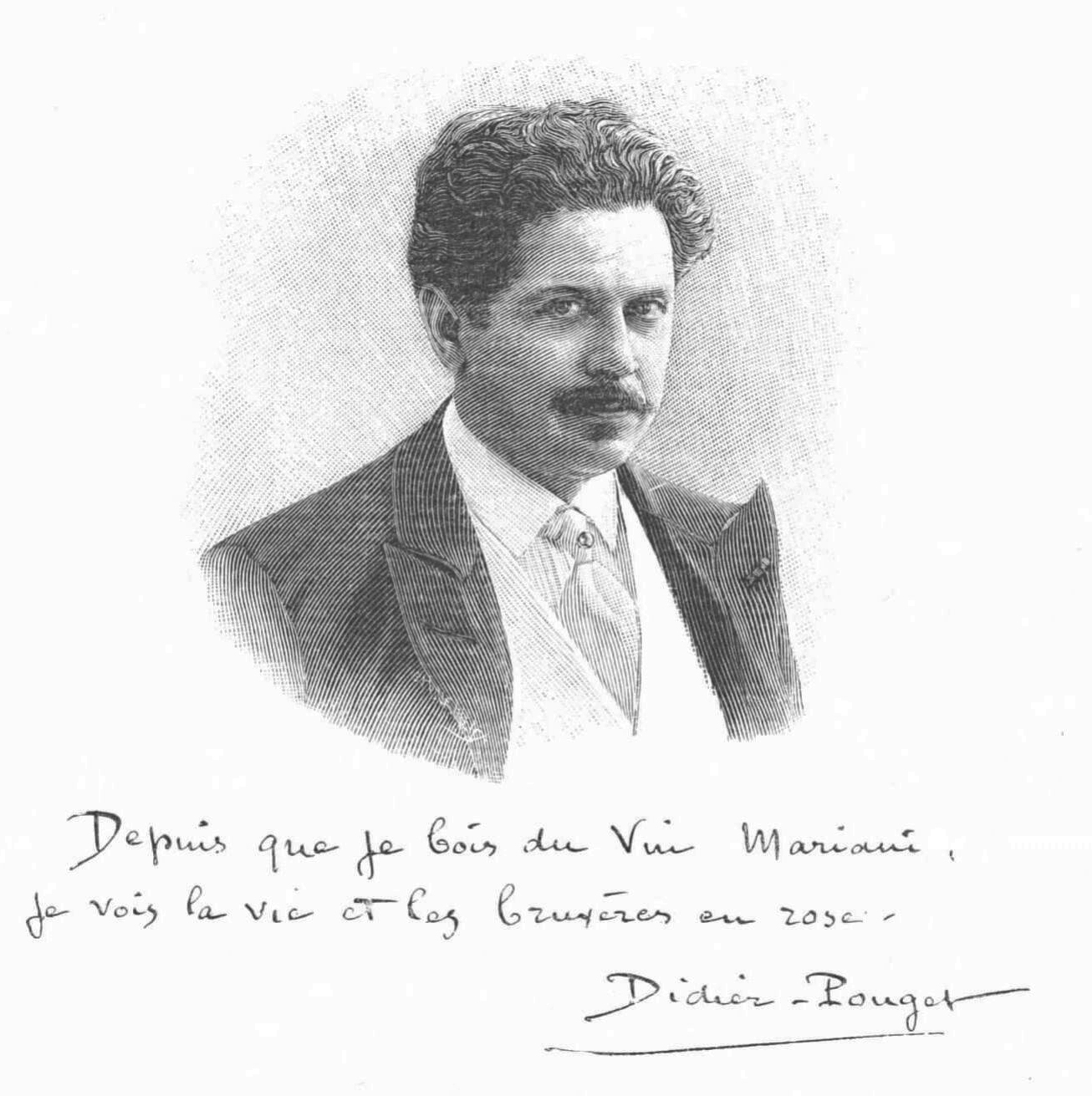 William Didier-Pouget (1864-1959) 1906 engraving